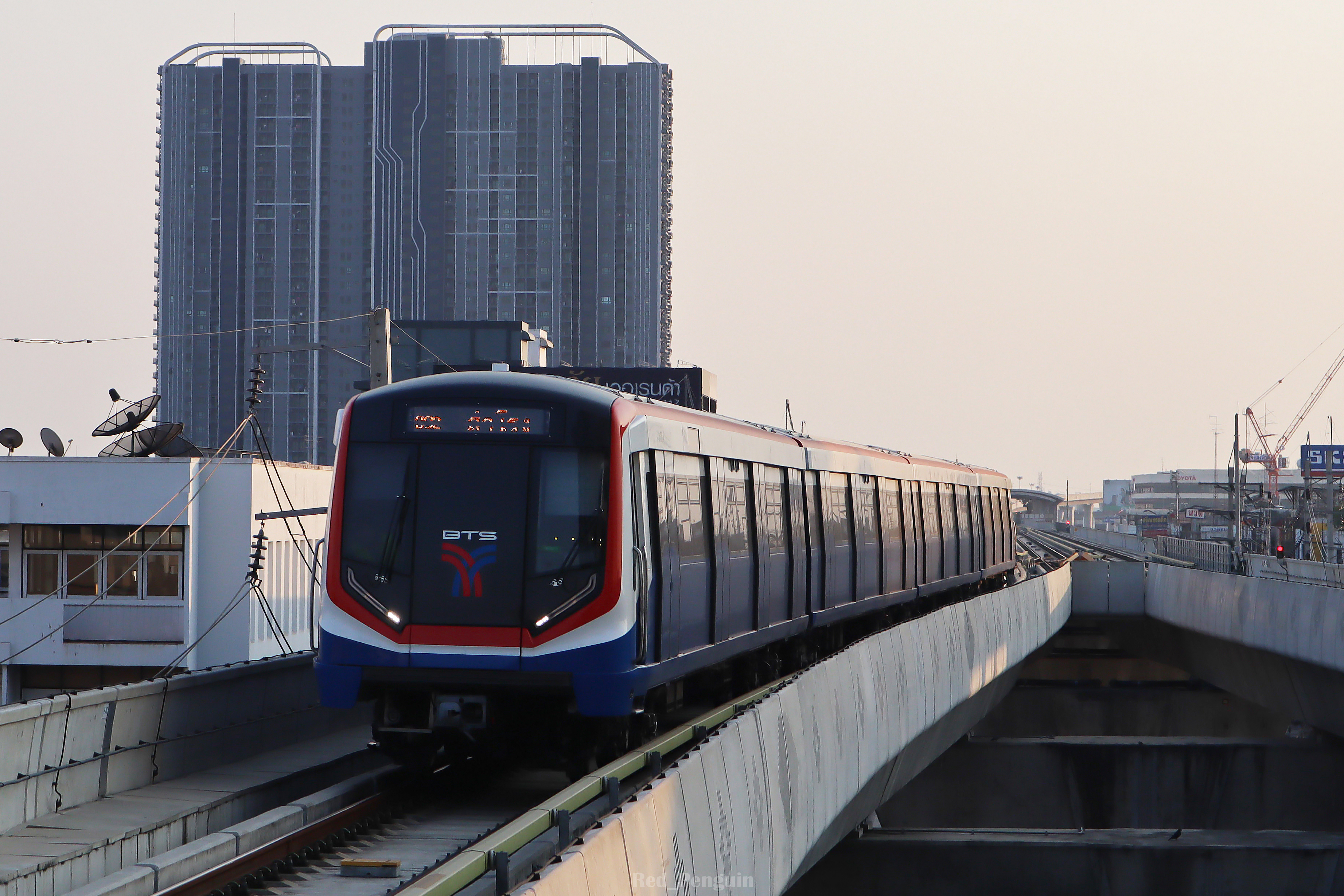 รถซอยสำโรง-เคหะ